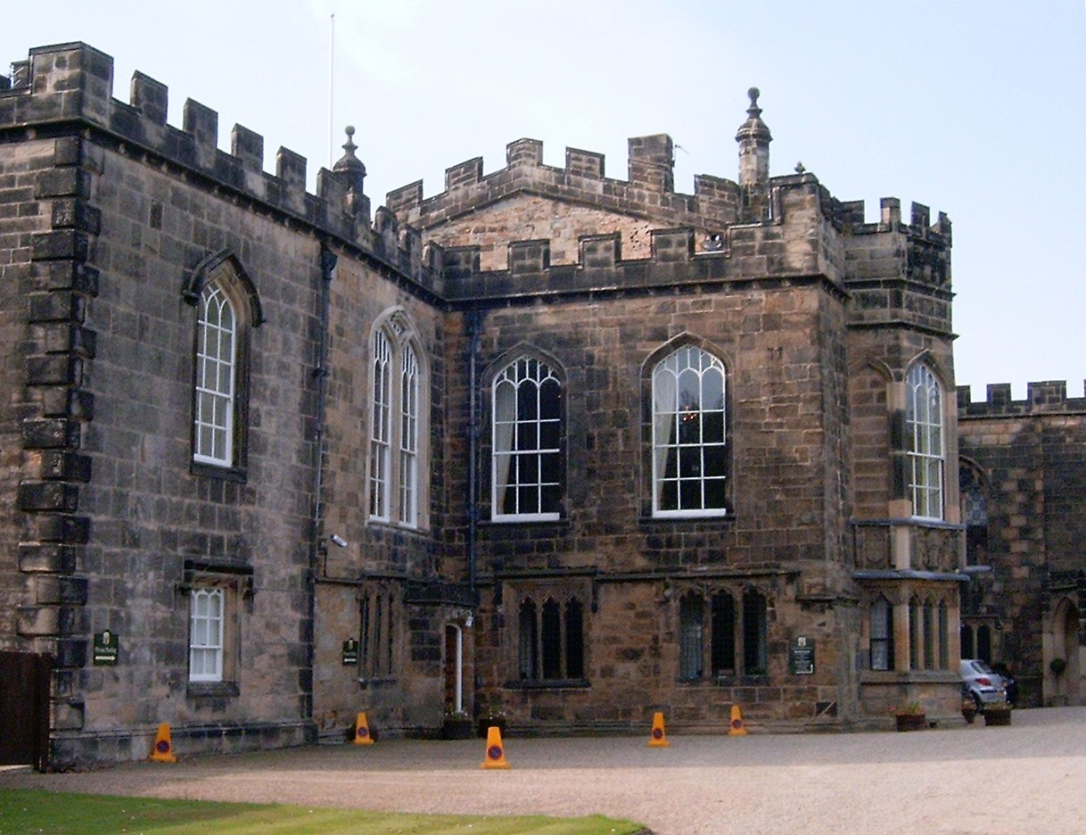 A crop of my previous version File:Auckland_Castle_8.jpg of this picture making it suitable for infobox